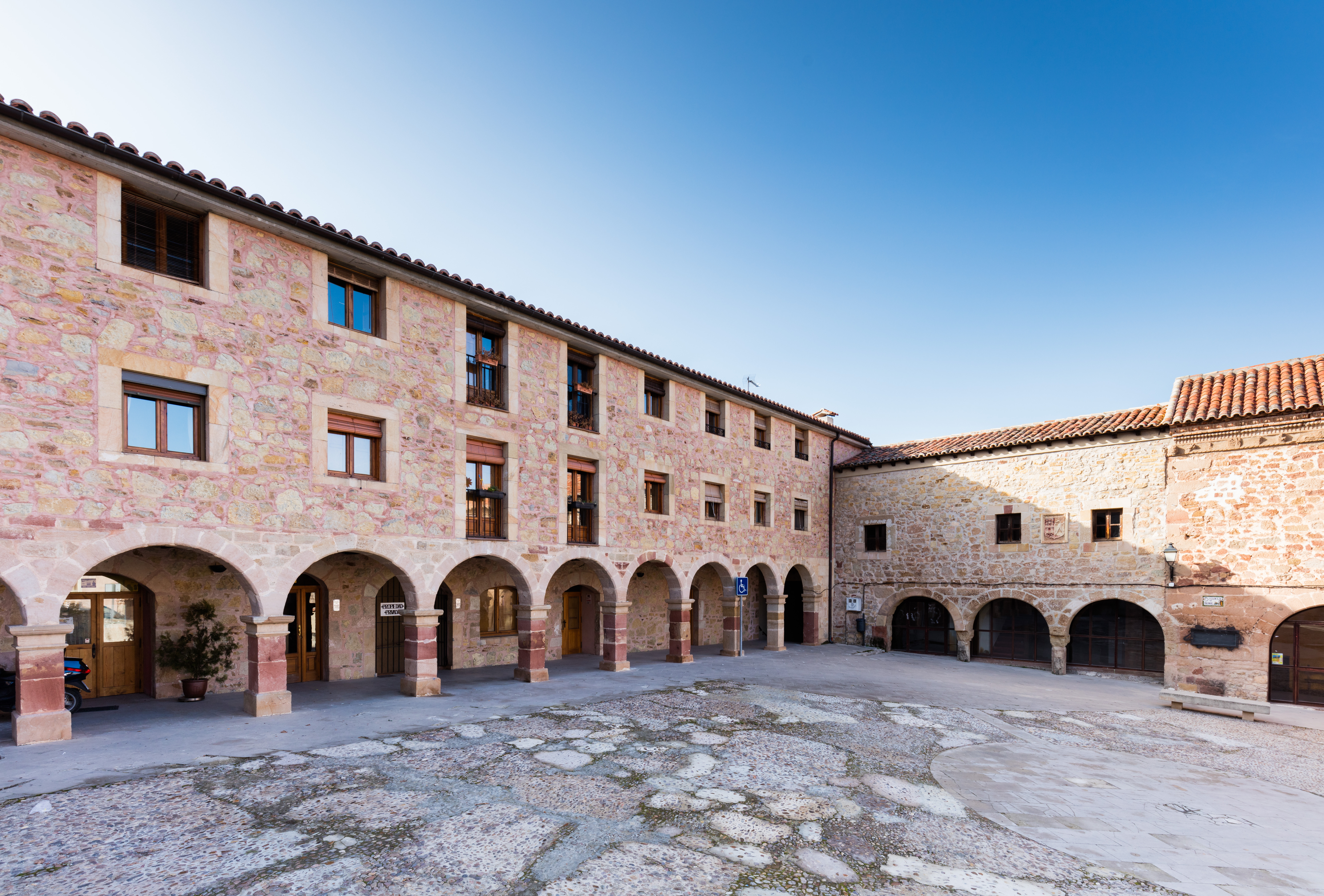 Plazuela de la Cárcel, Sigüenza, Spain